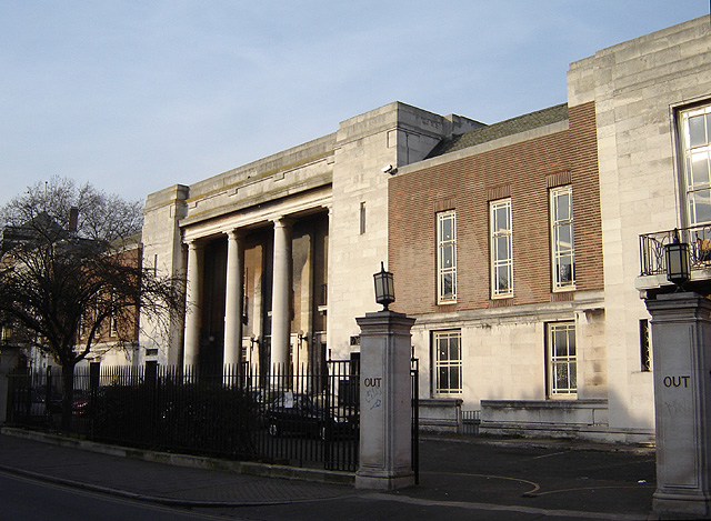 Town Hall, Stoke Newington, London. 4 September 2005. Photographer: Fin Fahey.